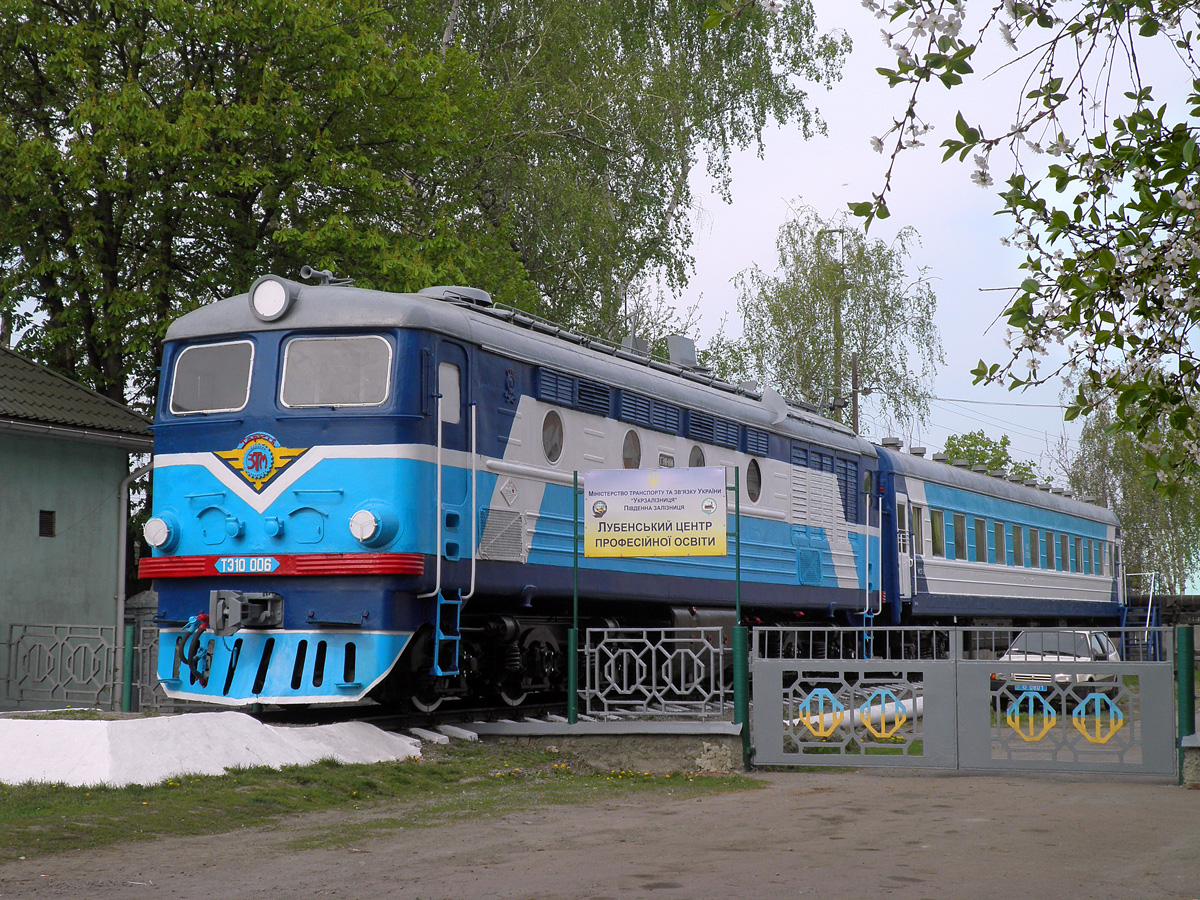 Diesel locomotive TE10-006, Lubny station, Ukraine, 2011